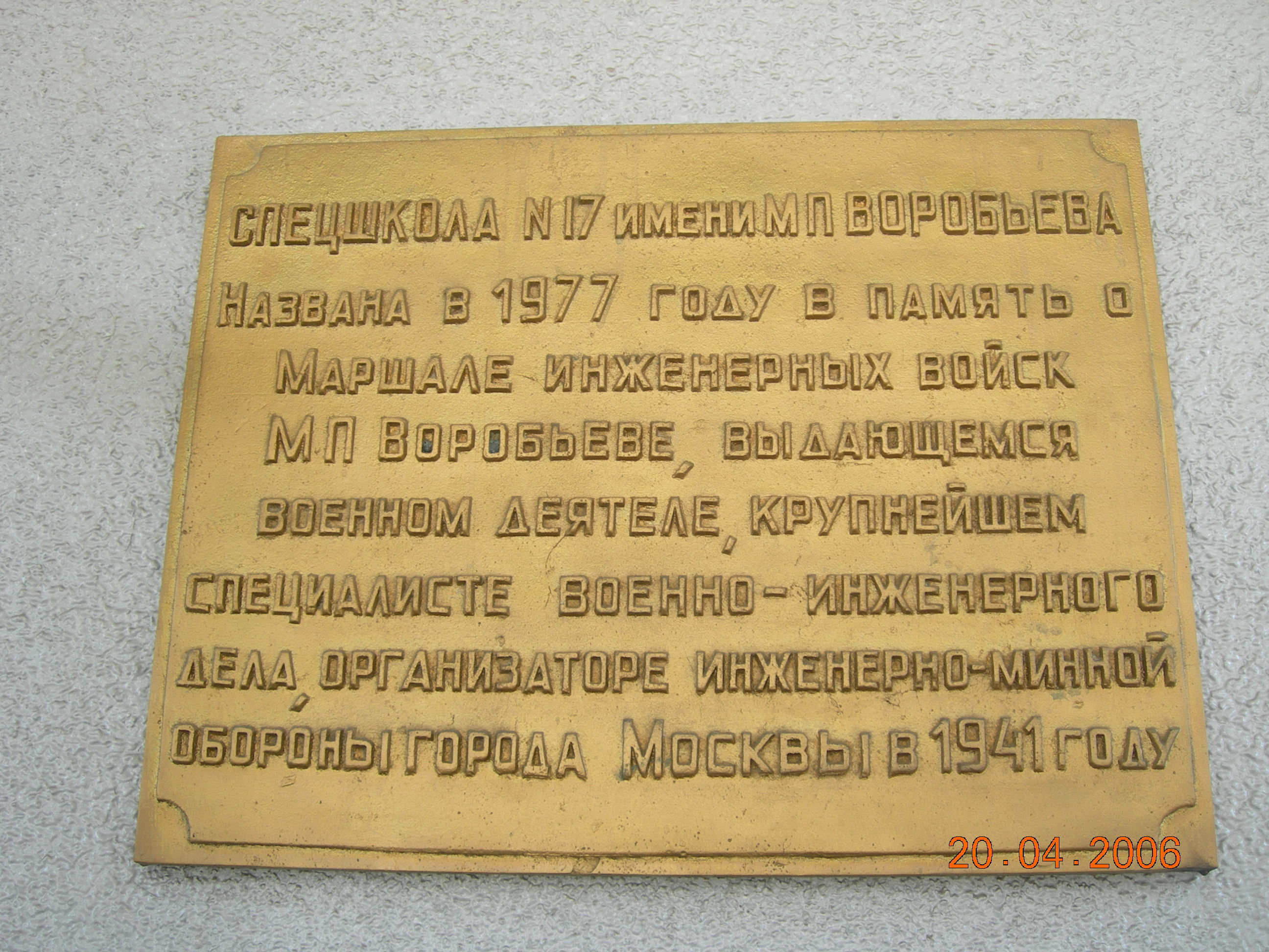 Commemorating plaque of Marshal Vorobiev in Izmailovo Gymnasium, Moscow, 1978